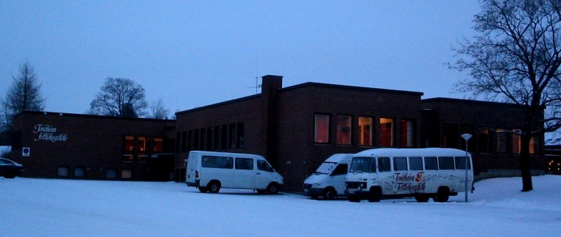 Toneheim is a music school located in Hamar. Picture taken by Torstein Frogner December 10 2005.